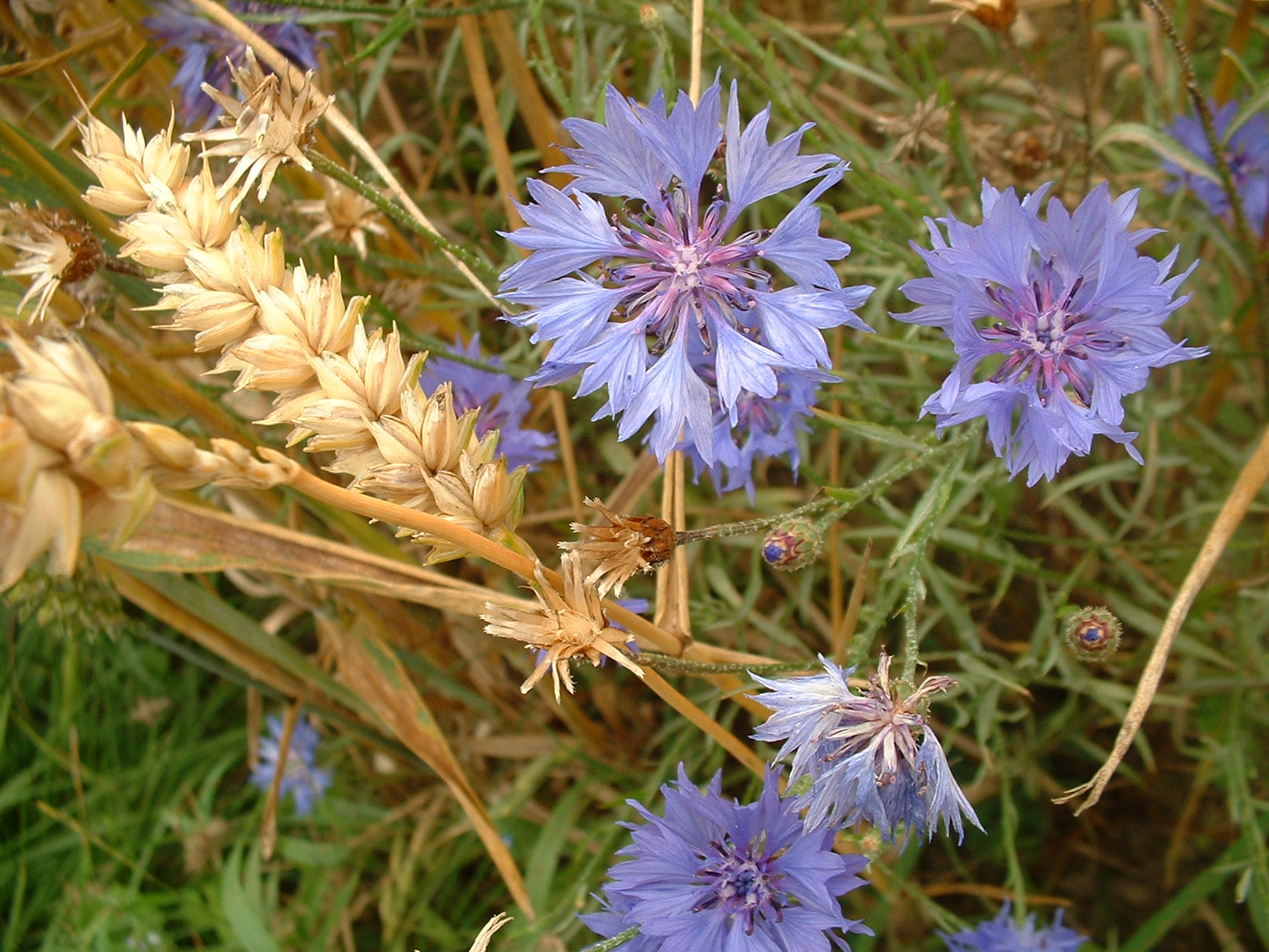 Centaurea cyanus in a wheat field.